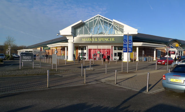 Marks & Spencer store, Handforth Dean, Cheshire Captured during an unusually quiet moment, mid-morning, a fortnight before Christmas Day 2009. The doors first opened in October 1995.